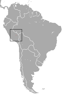 Ronald's Opossum (Monodelphis ronaldi) range IUCN: Monodelphis ronaldi Solari, 2004 (old web site) (Least Concern)